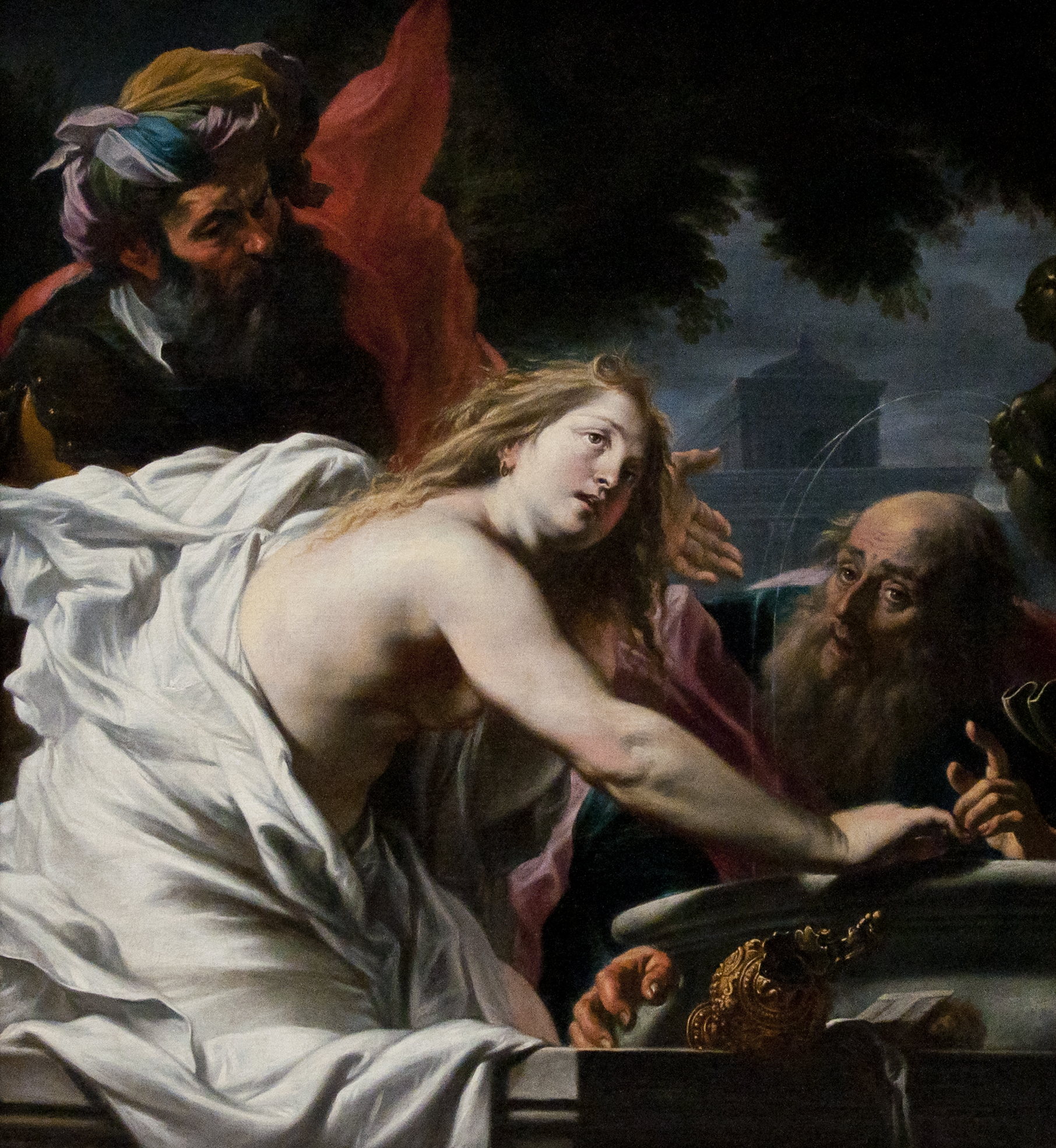 This image is available from the Netherlands Institute for Art Historyunder digital ID 115066. This tag does not indicate the copyright status of the attached work. A normal copyright tag is still required. See Commons:Licensing.